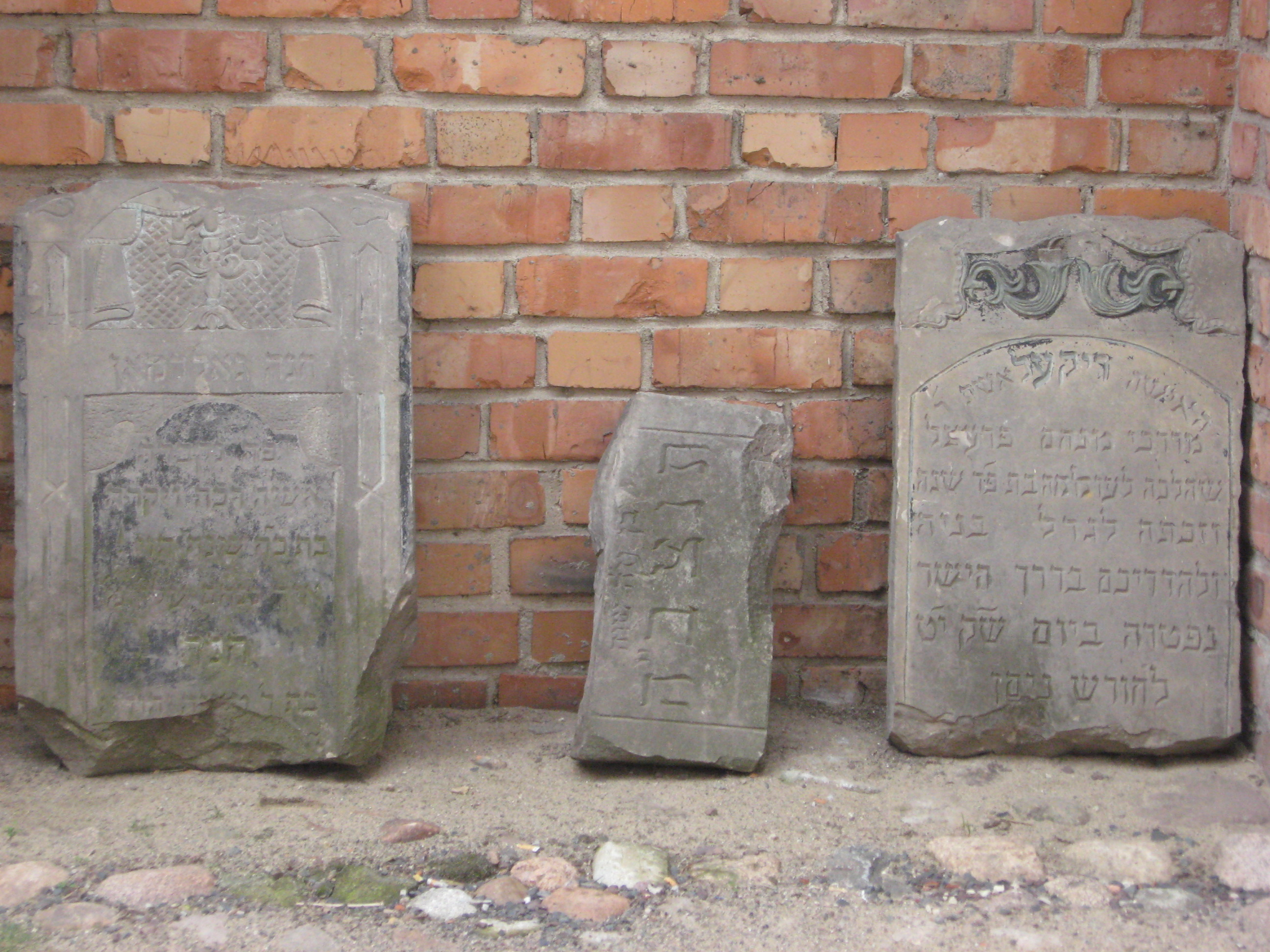 Gosławice district - Jewish remains in museum